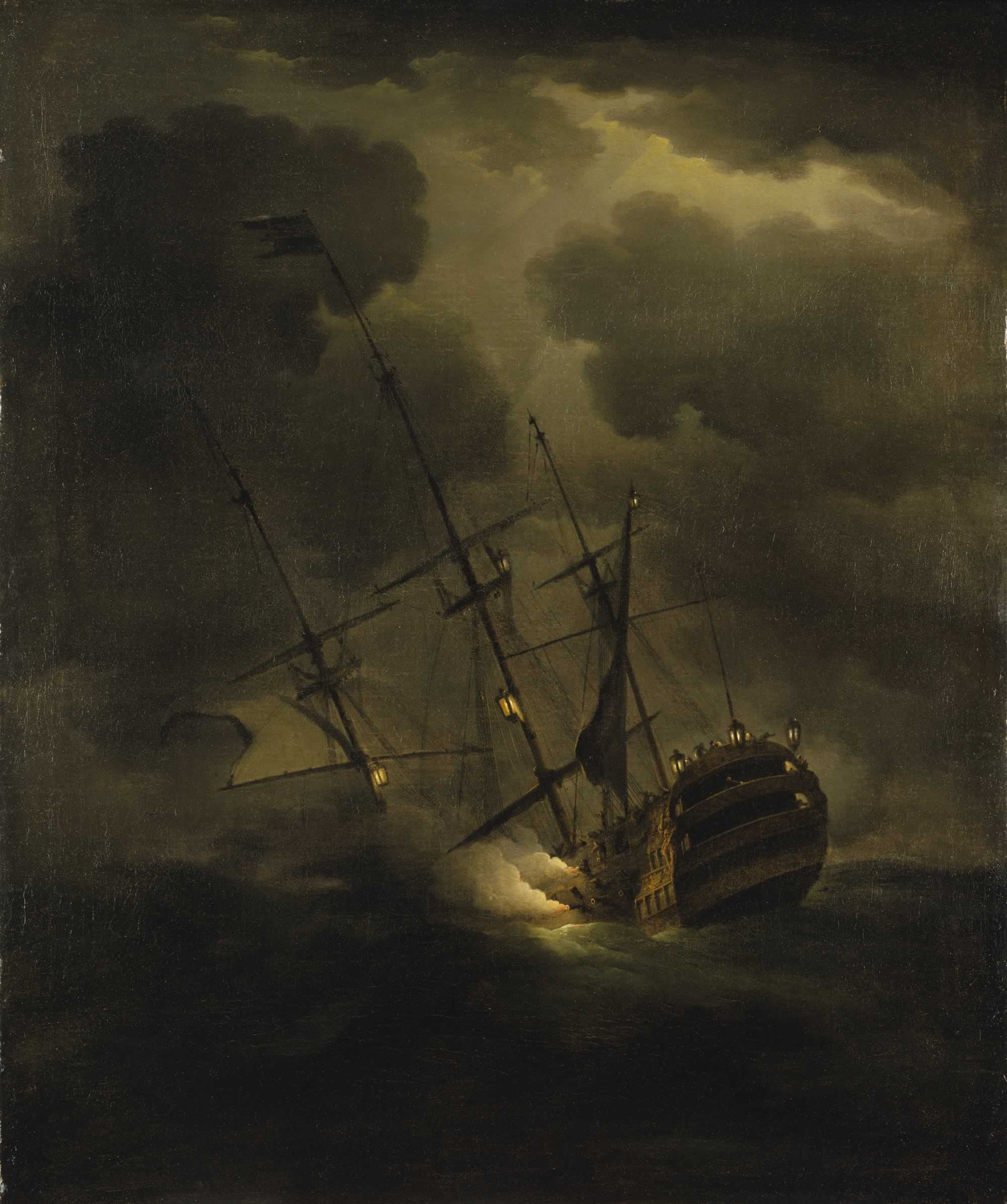 Peter Monamy was one of the first English artists to establish a native school of marine painting. His work is often alleged to "show an overwhelming influence of the Dutch style", but the authentic works created by him during his 45 year London career convincingly demonstrate that this influence was a great deal less than "overwhelming". In 1696 Monamy, aged 15, was bound apprentice for seven years to a former Master of the Painter-Stainer's Company, and was obviously trained and taught by him. It has repeatedly been asserted that he "may have" worked in van de Velde’s studio in Greenwich, but there is no evidence whatsoever of this supposed employment. Any such employment is exceedingly unlikely, and in fact virtually impossible. The van de Veldes ceased to maintain a studio in Greenwich soon after the 1689 Revolution of William III, and apparently moved their business to Covent Garden. At this time Monamy was 8-10 years old. The Loss of the 'Victory', 4 October 1744, is a dramatic night scene in the native English taste. It is highly atmospheric, slightly naive, and discernibly unlike anything by the van de Veldes. The ship was recognized in her day as ‘the finest ship in the world’, but was wrecked and lost with all hands on the Caskets, near the island of Alderney in the English Channel after becoming separated from the rest of the English fleet in a gale. In the painting, which is portrait format, the solitary vessel is going down with lanterns alight and firing two of her guns – their light eerily mirrored by the moonlight streaming down from behind the dark storm clouds in the sky. The painting could arguably be seen as an early visual example of the 18th-century taste for the sublime.